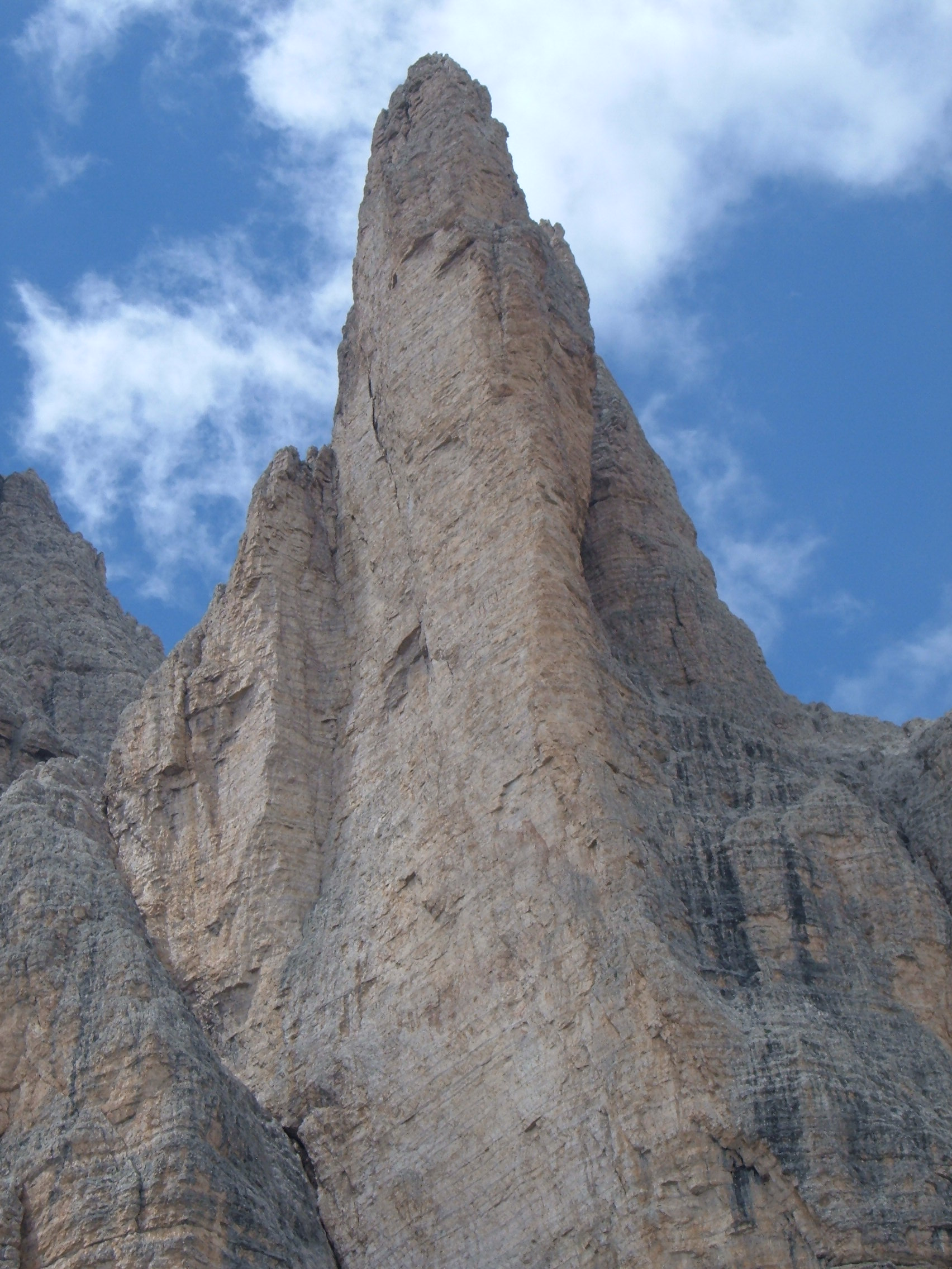 dolomite mountain: kleine zinne. The picture shows the famous Gelbe kante, an important climbing route. Own work 25/6/06